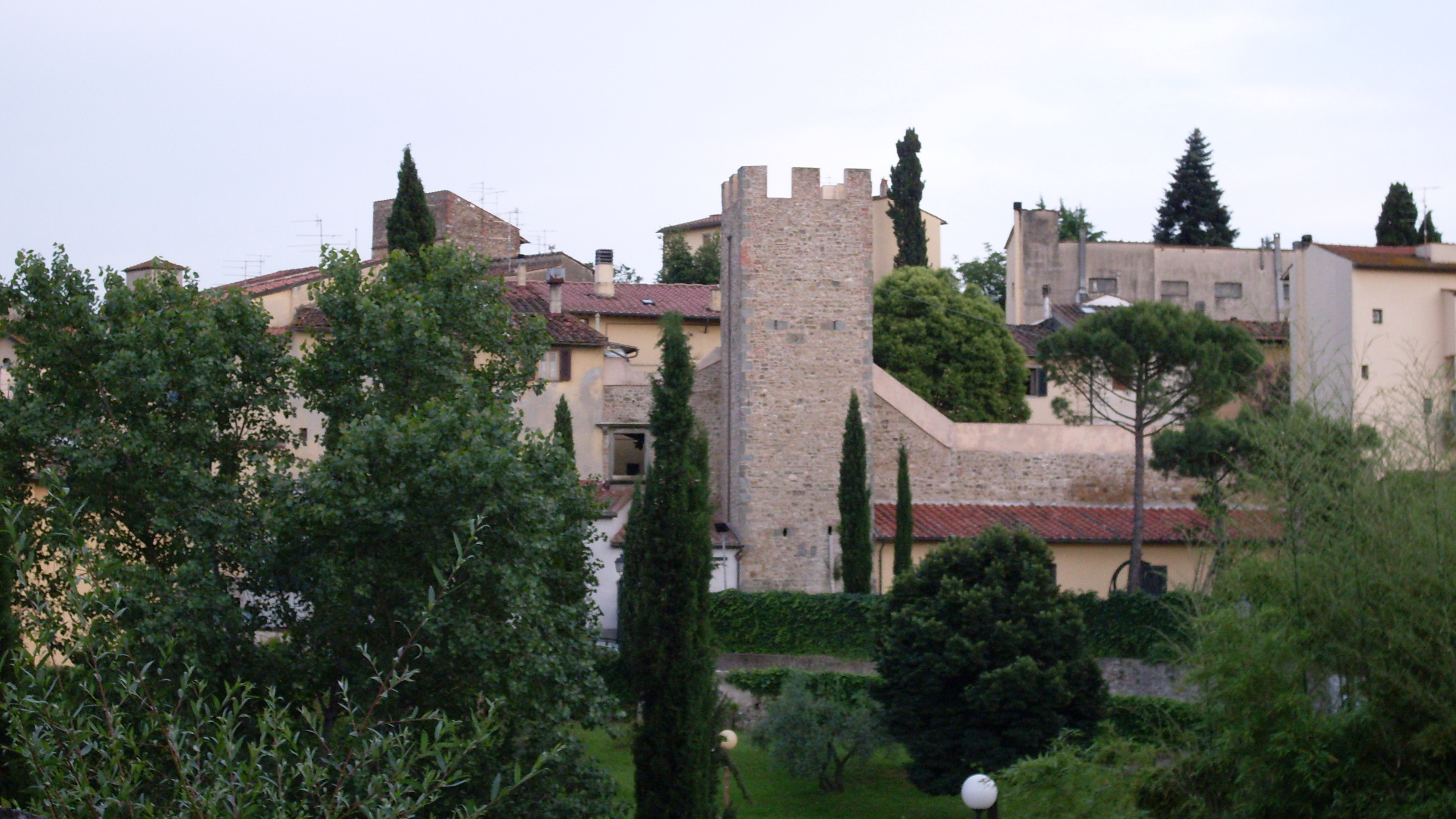 Tower of "Settentrione" in the city of Signa, near Florence, Italy